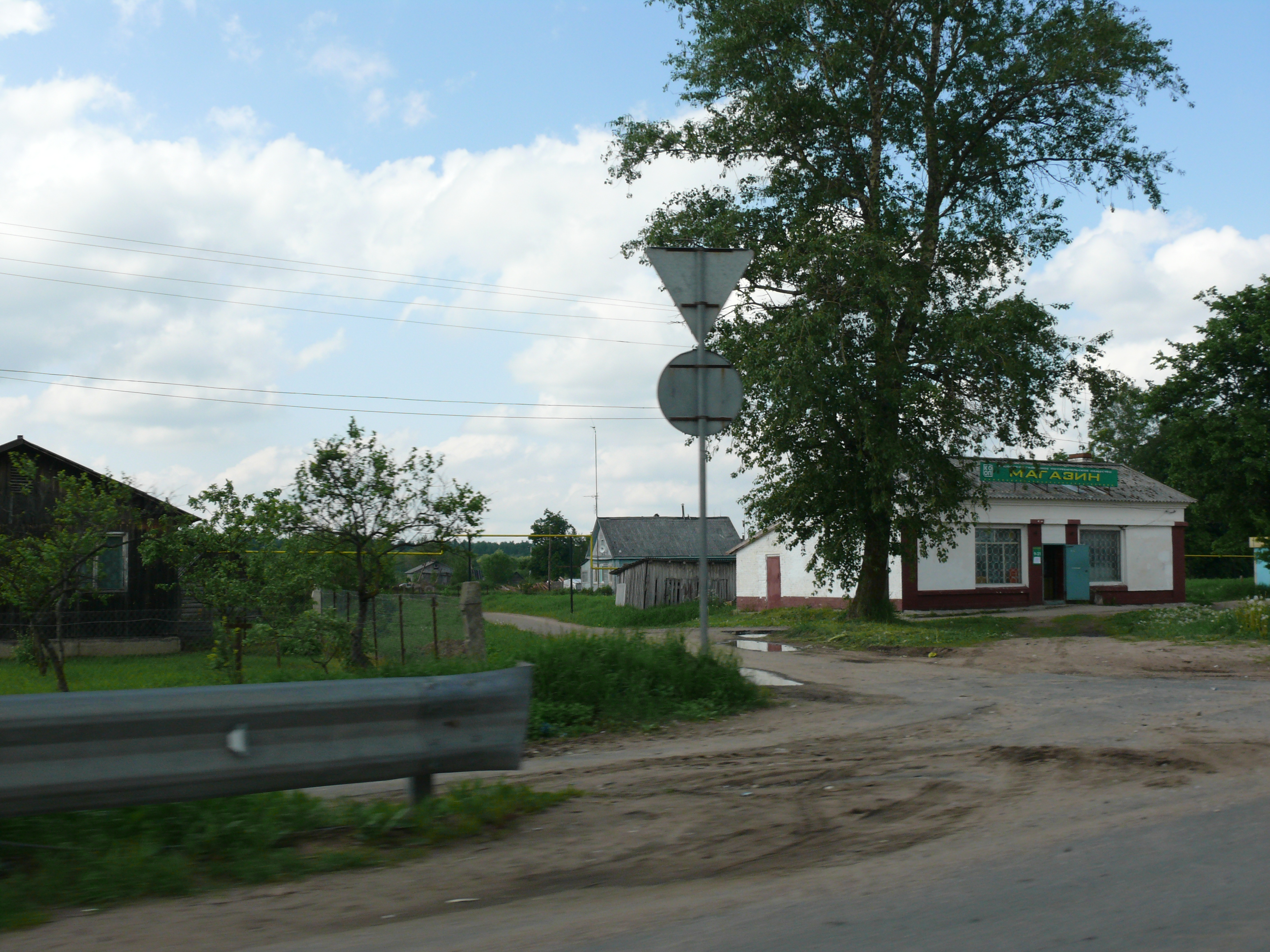 Spasskaya Polist village. Chudovsky district, Novgorod oblast, Russia